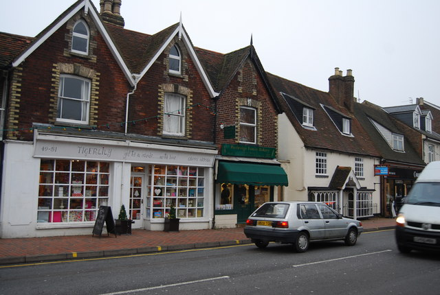 Shops on Southborough High St.